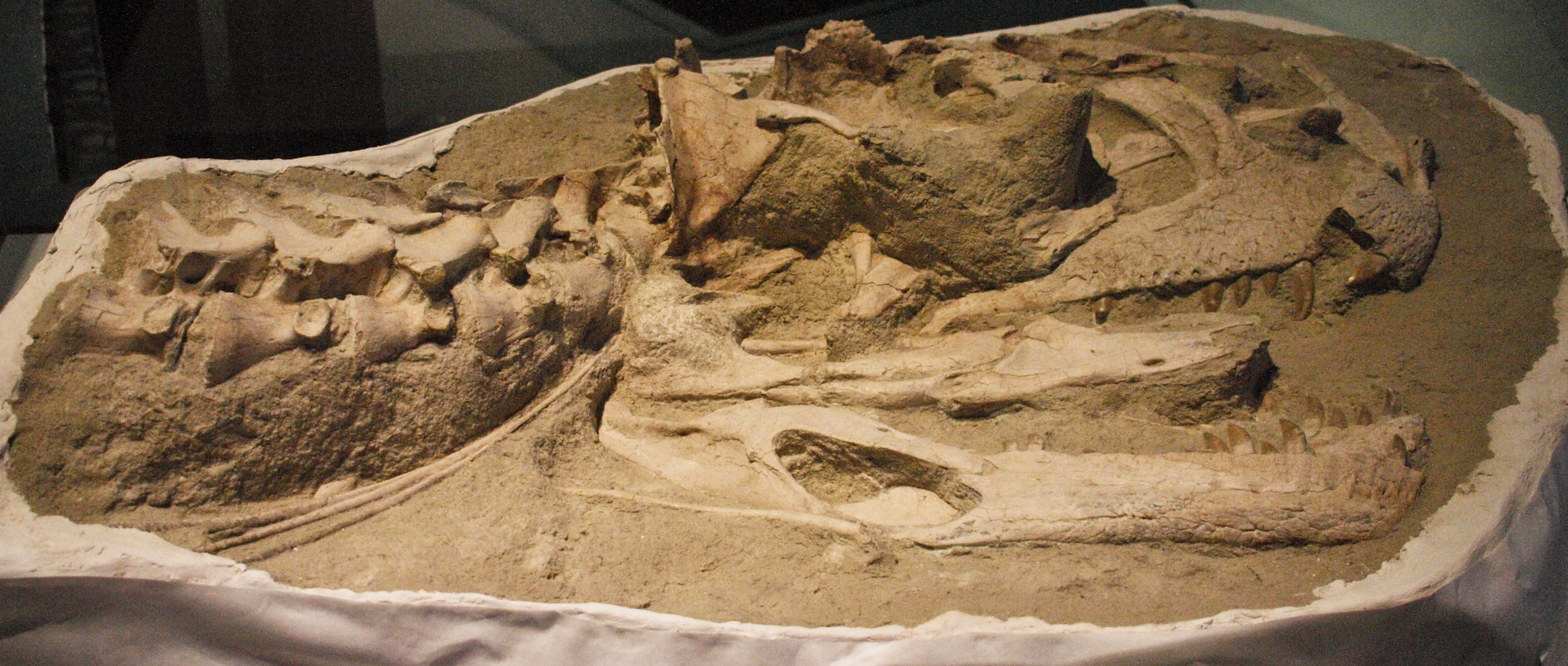 Majungasaurus crenatissimus Fossil Skull and Neck on Display at the Royal Ontario Museum (FMNH PR 2836)